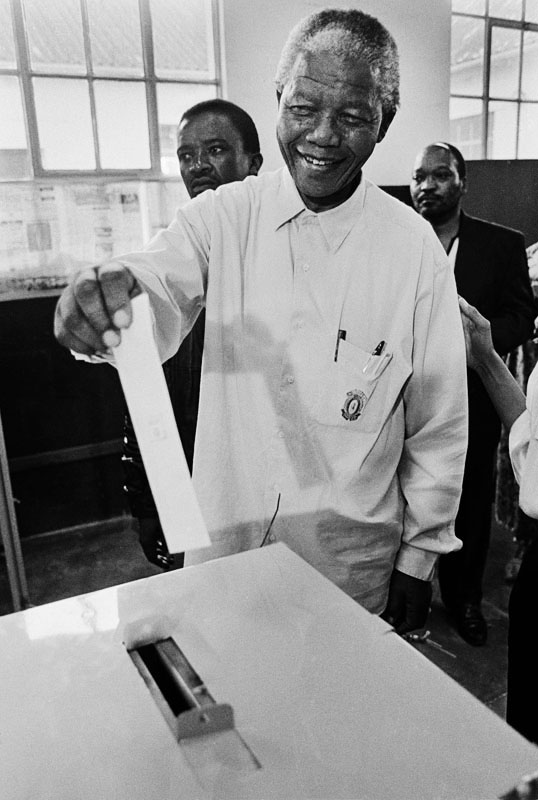 This is the official photo of Mandela casting his vote in the 1994 elections. It was the first time Mandela had voted in his life. It was taken at Ohlange School, Inanda, Durban by the IEC's official photographer, Paul Weinberg. It is one of only two images of this event.